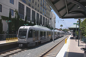 Gold Line train at Del Mar station in July 2013